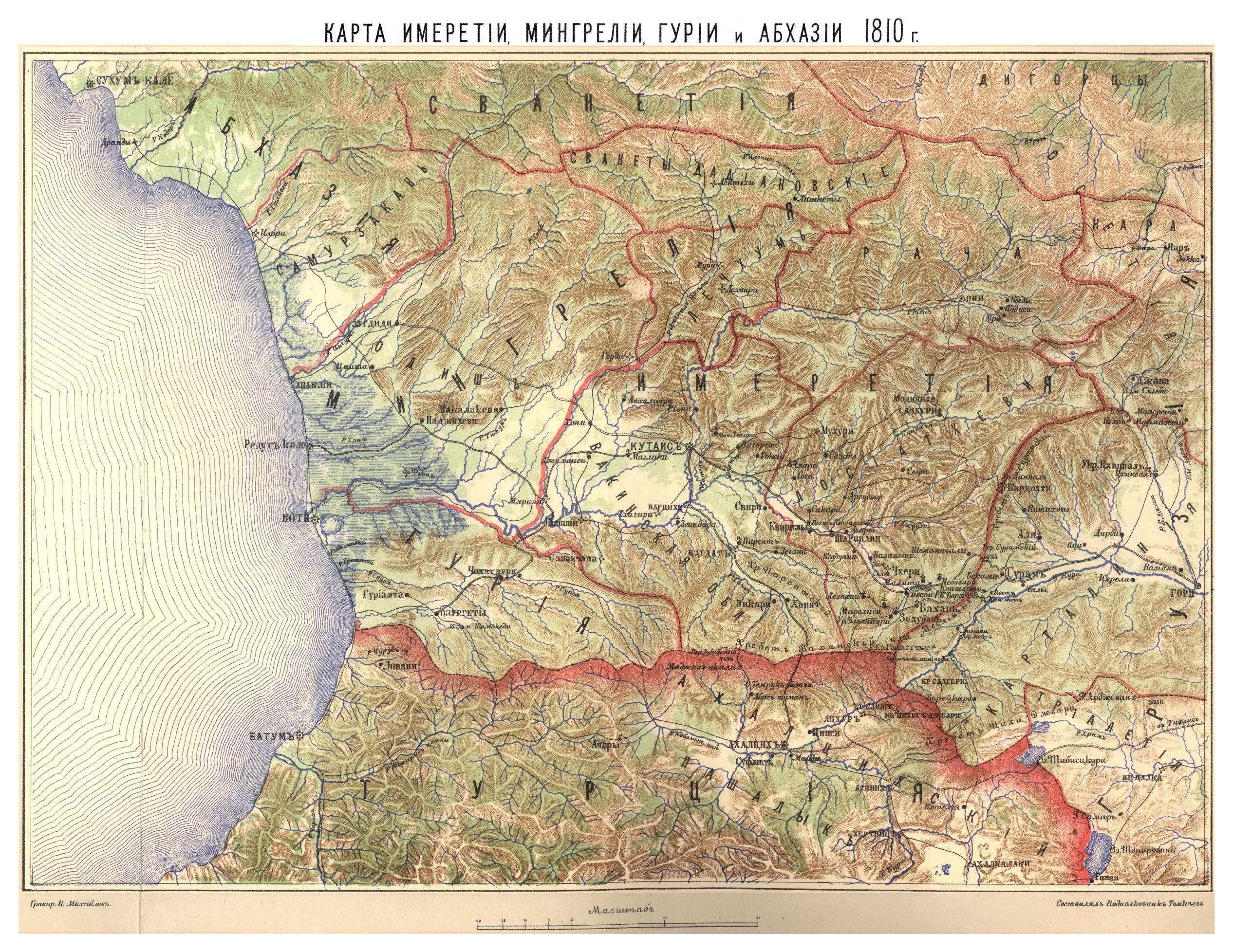 Map of Imeretia, Guria, Mingrelia, and Abkhazia in 1810 (Tiflis, 1902)